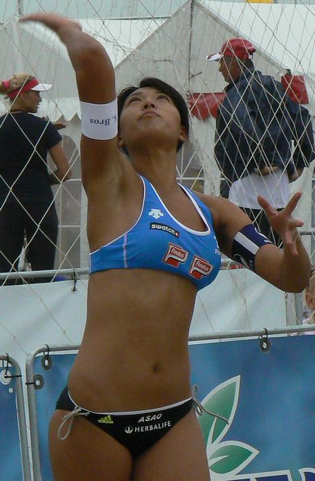 Japanese beach volleyball player Miwa Asao competing in Norway in 2008. Cropped from the original using MS Paint.